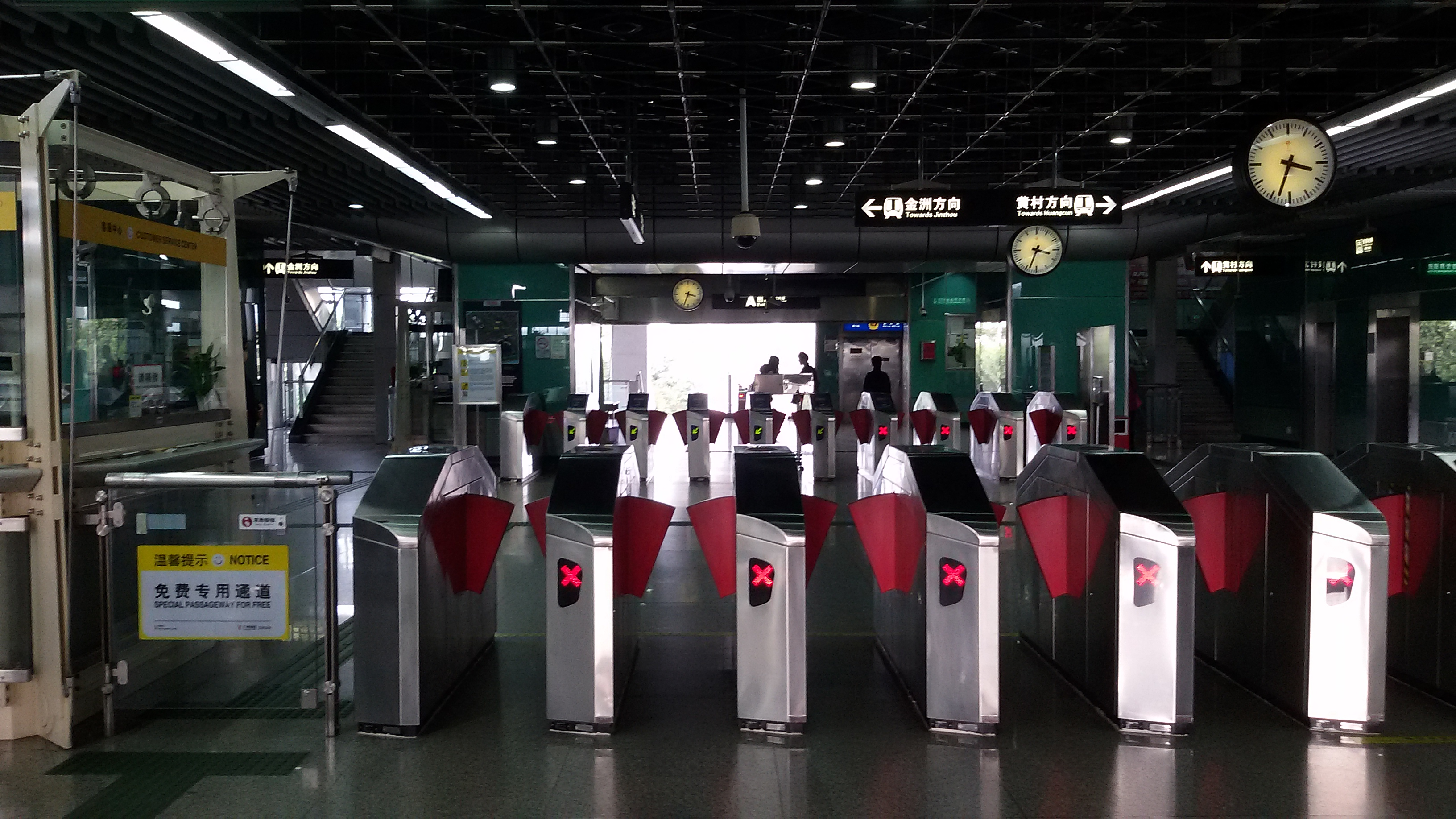 Concourse for Jiaomen Station in Guangzhou Metro.